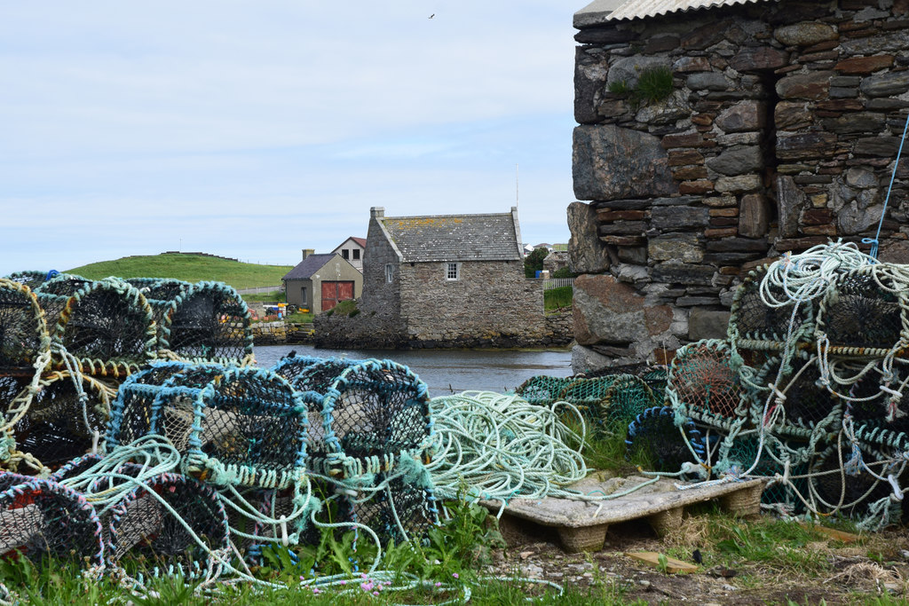 Symbister Pier House Museum